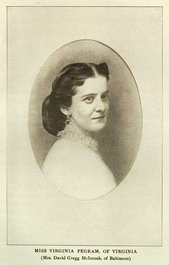 Mrs. David Gregg McIntosh, of Baltimore, from Louise Wigfall Wright (1846-1915). A Southern Girl in '61: The War-Time Memories of a Confederate Senator's Daughter. New York: Doubleday, Page & Company, 1905.